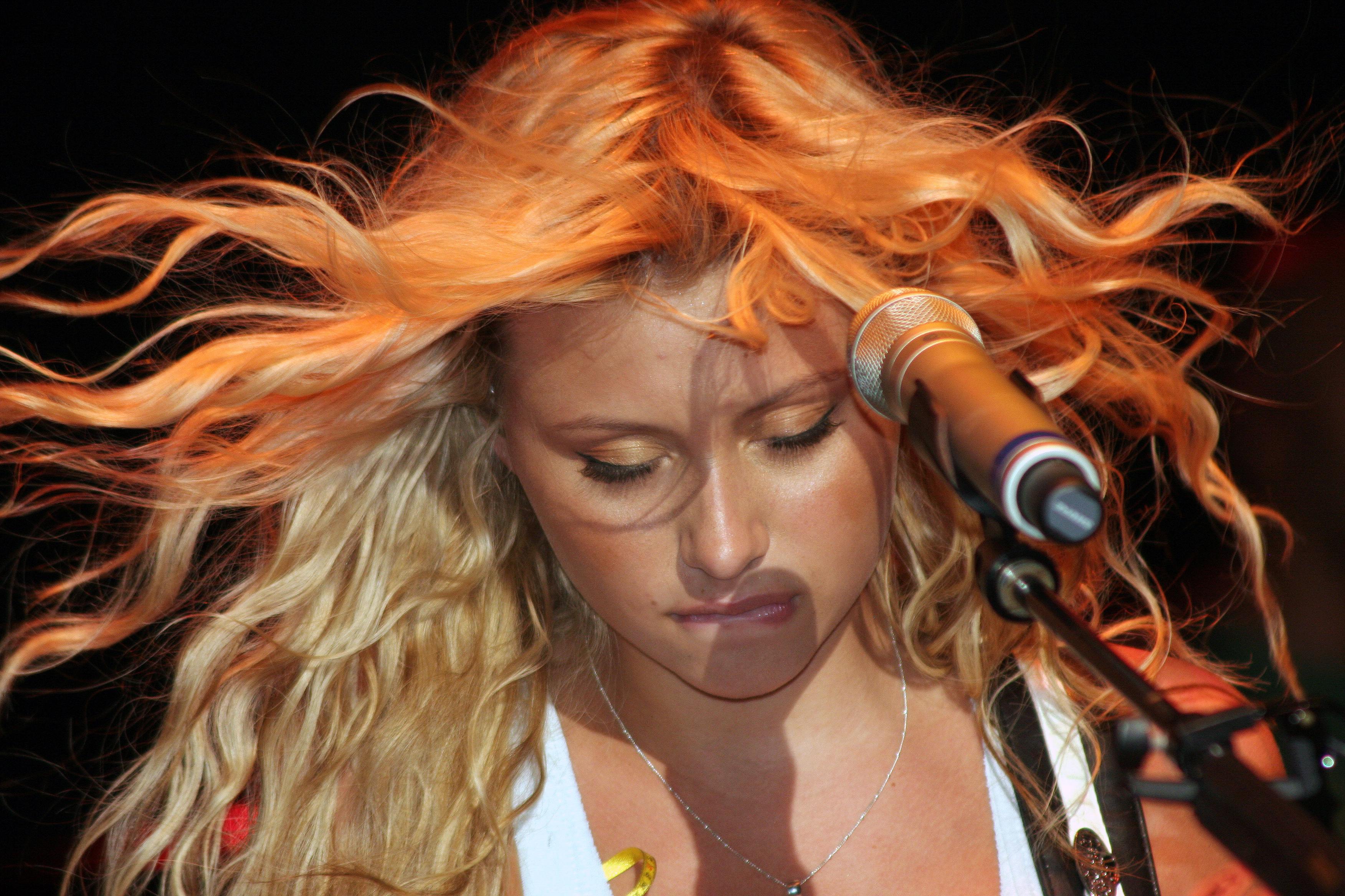 Paparazzo Presents a photo of Alyson Renae Michalka of the singing duo Aly & AJ in concert on June 21, 2008 in Valdosta, Georgia.